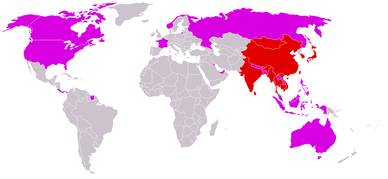 This map shows the distribution of the Buddhist population by numbers. Red: High number; fuchsia: medium number.